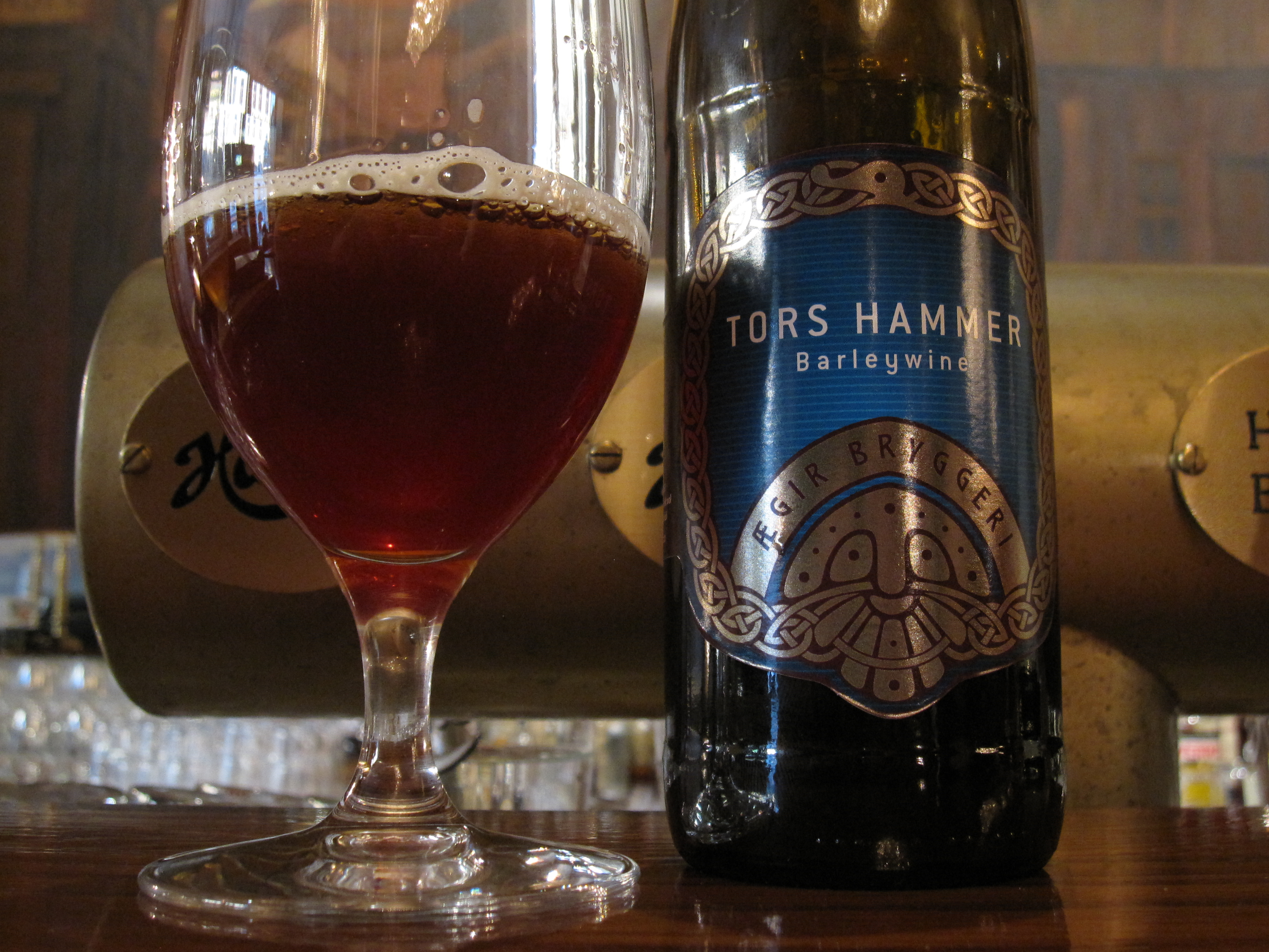 A bottle of Tors Hammer Barleywine from Ægir Bryggeri in Flåm, Norway.